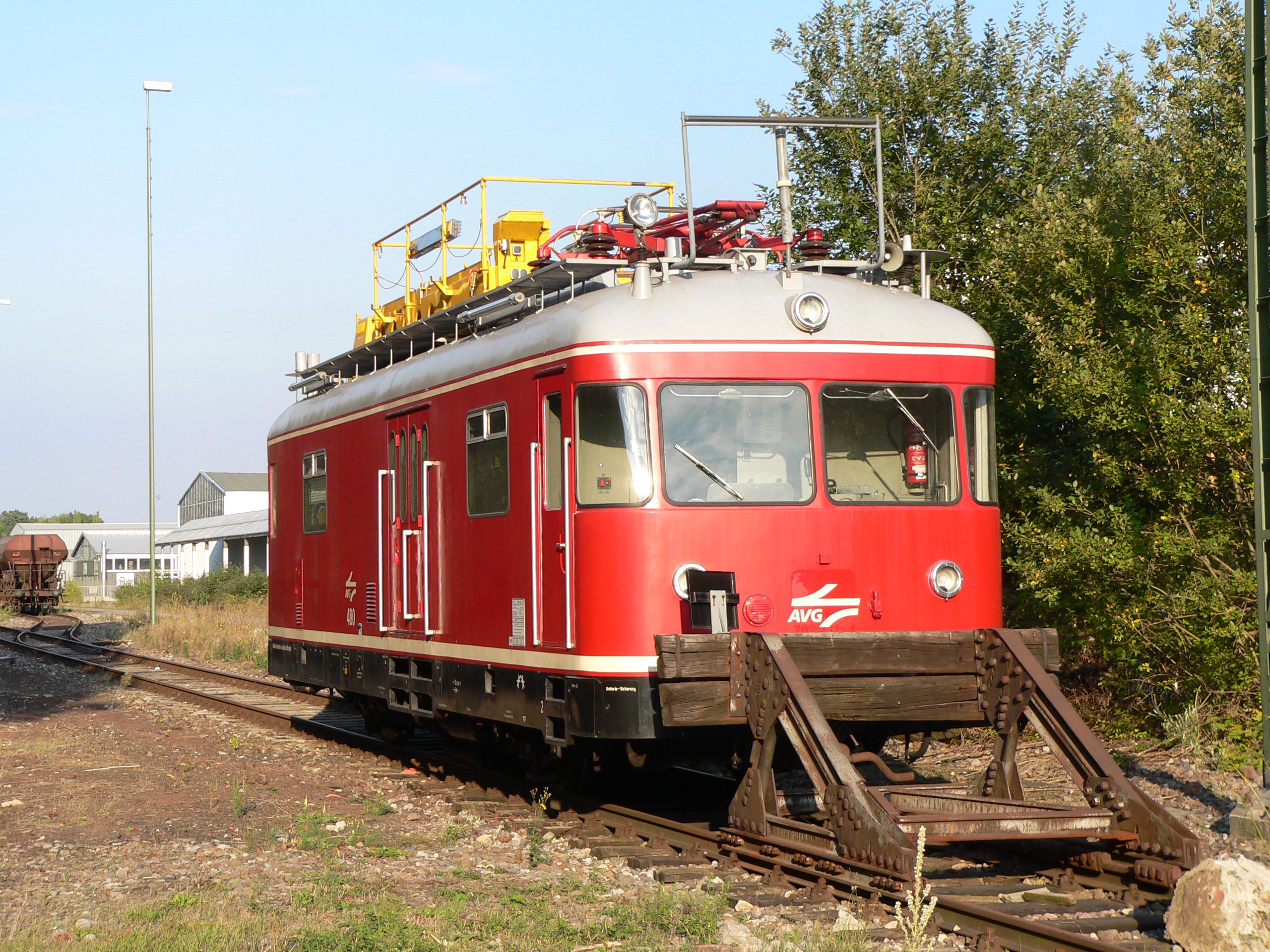 MOW vehicle of the AVG at the Enztalbahn (Enztalrailway) near Pforzheim - Germany